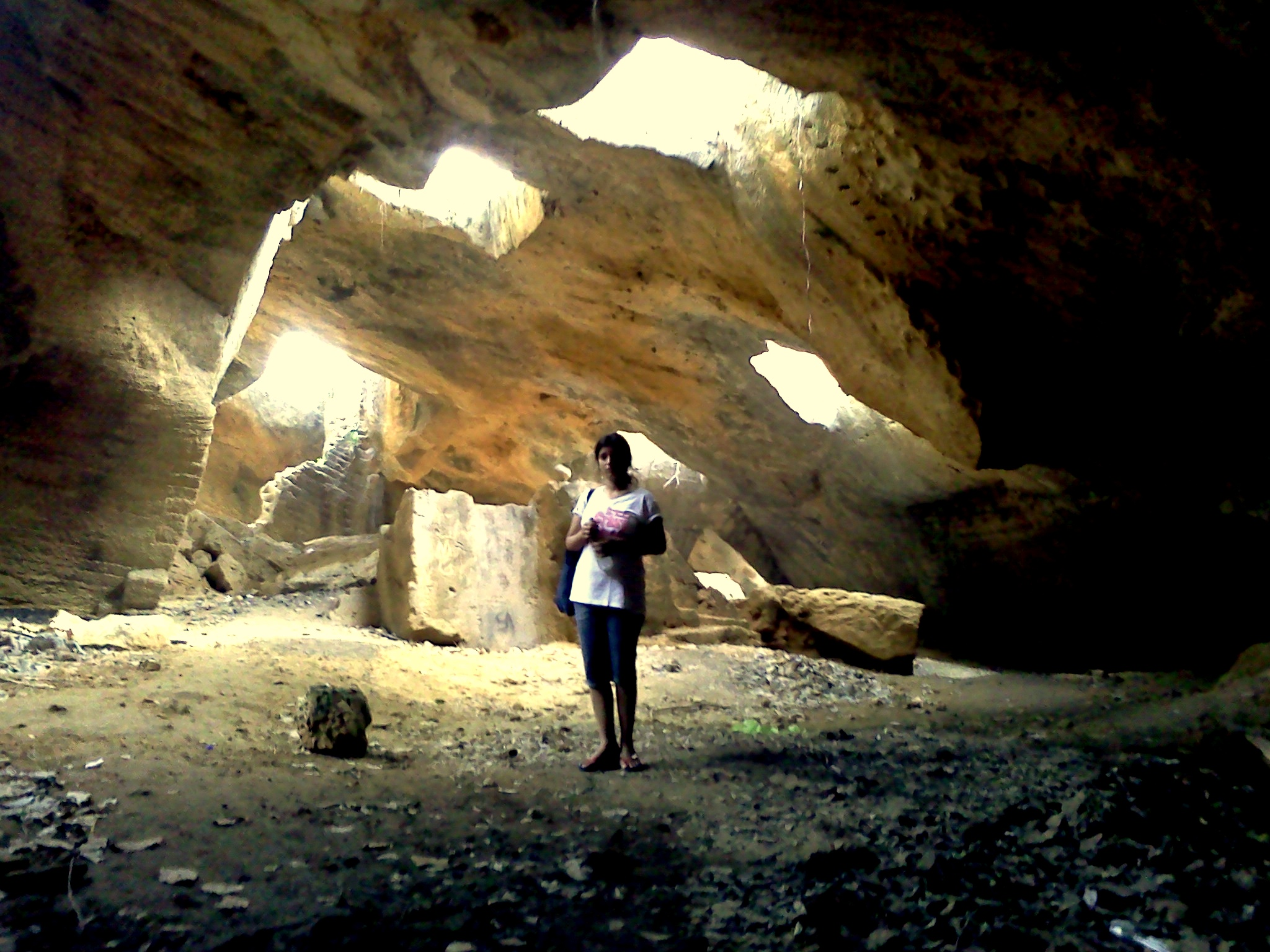 Haunting as the locals call it, they are beautiful from within. The sun plays its plays inside, you are left mesmerized.